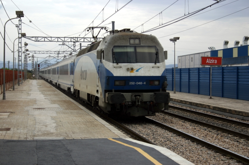 Arco 697 Arco García Lorca passing througth Alzira.